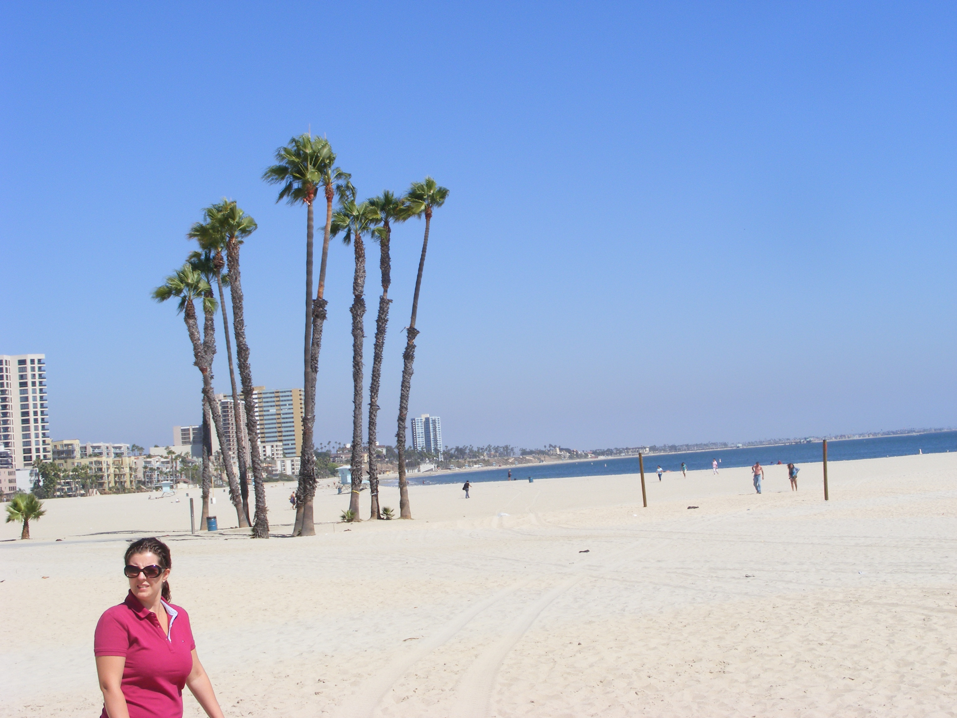 Girl in red top walking on Long Beach